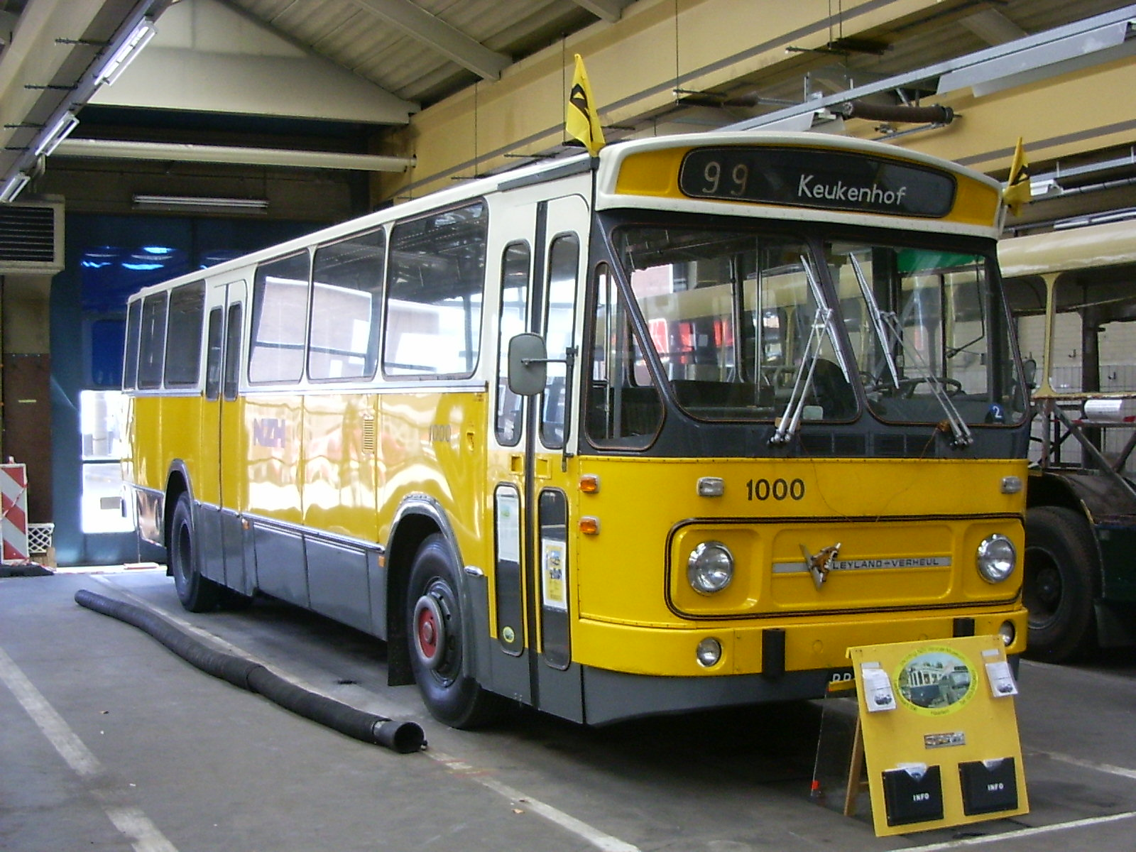 NZH vintage bus 1000